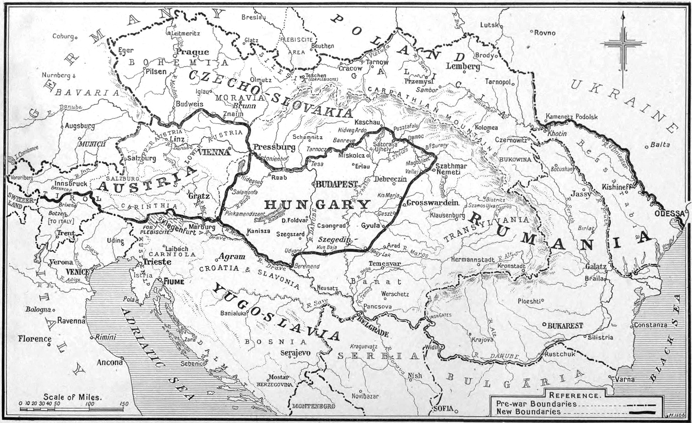 The partition of Austria-Hungary showing the boundaries as defined in the treaties